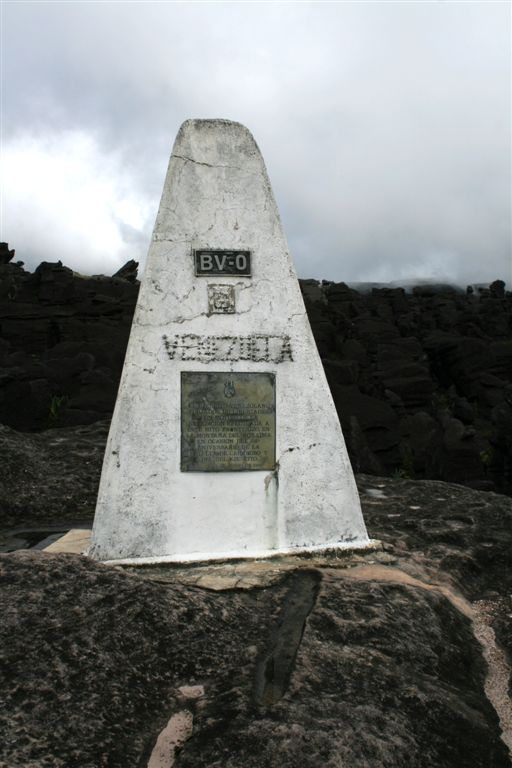 Tripoint Brazil-Guyana-Venezuela monument, mount Roraima